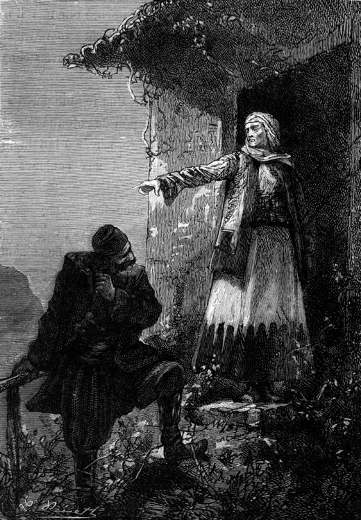 An illustration from Jules Verne's novel "The Archipelago on Fire" drawn by Léon Benett.